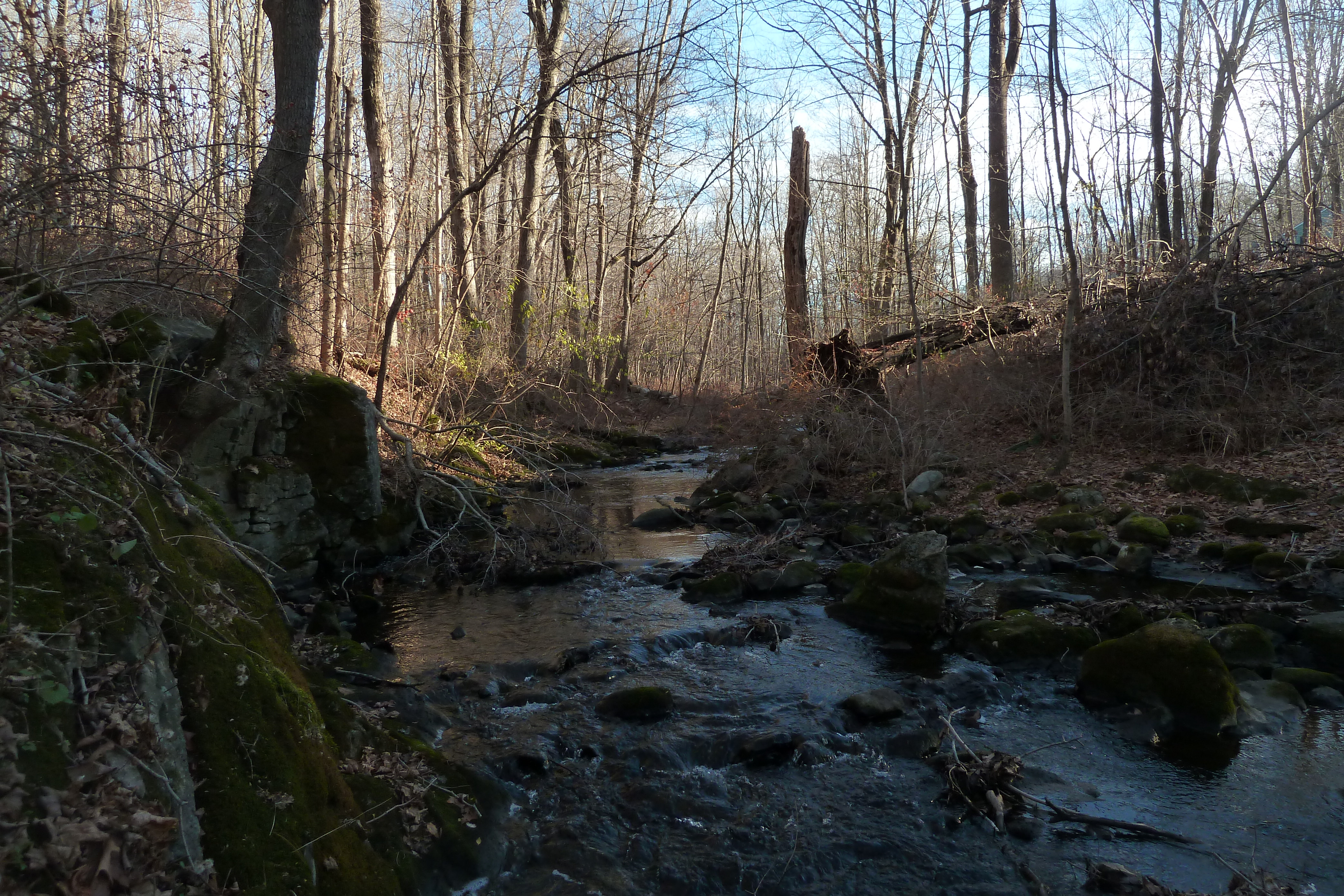 The Titicus River in Kiah's Brook Reserve, Ridgefield, CT